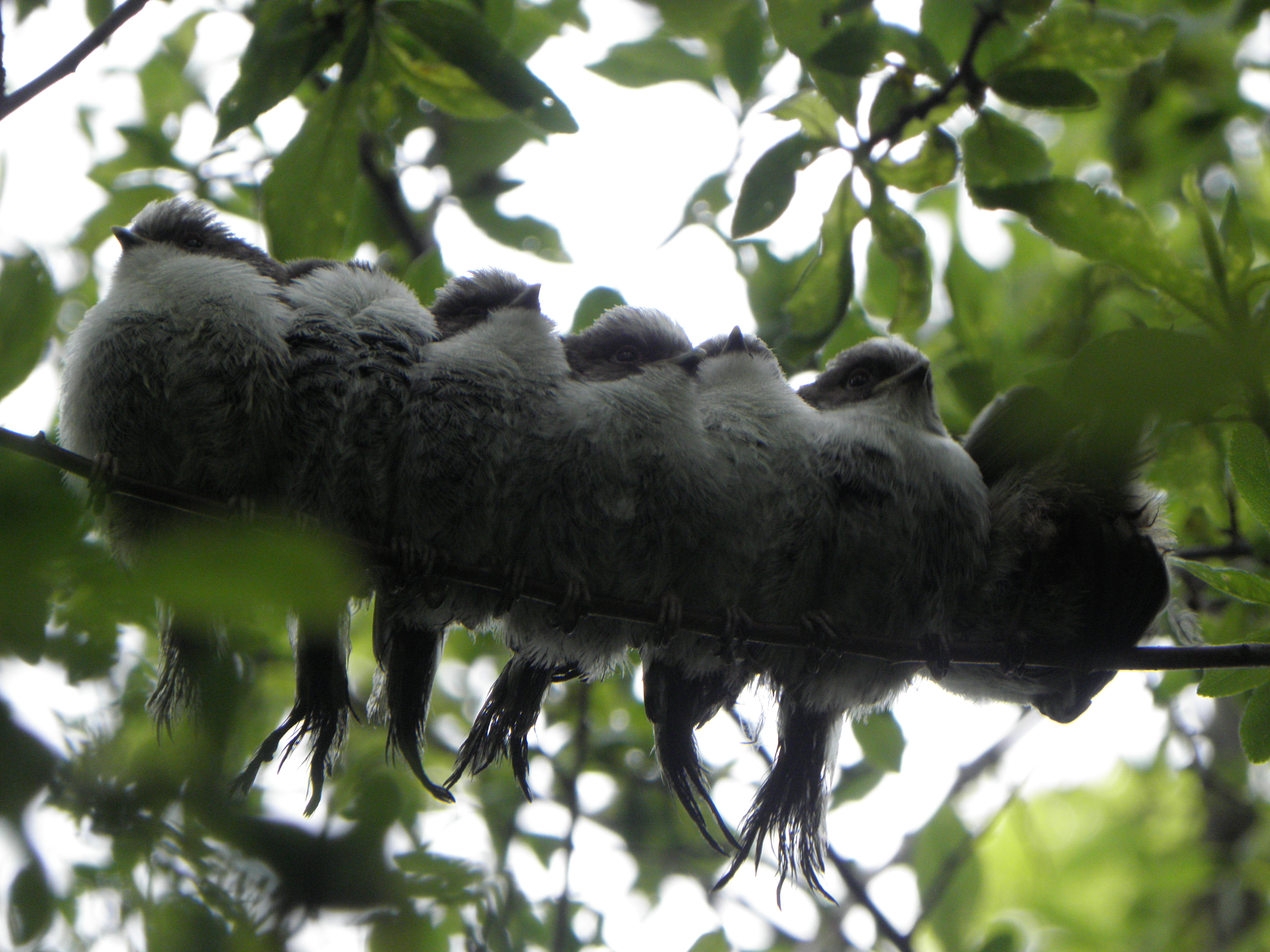 Long-tailed TitLatina: Aegithalos caudatus